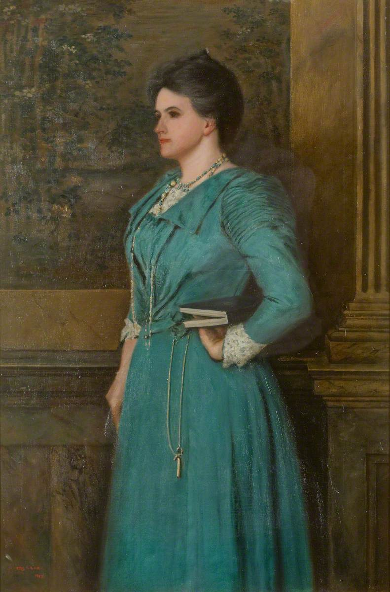 Burne-Jones, Philip Edward; Caroline Starr Balestier (1862-1939), Mrs Rudyard Kipling; National Trust, Bateman's